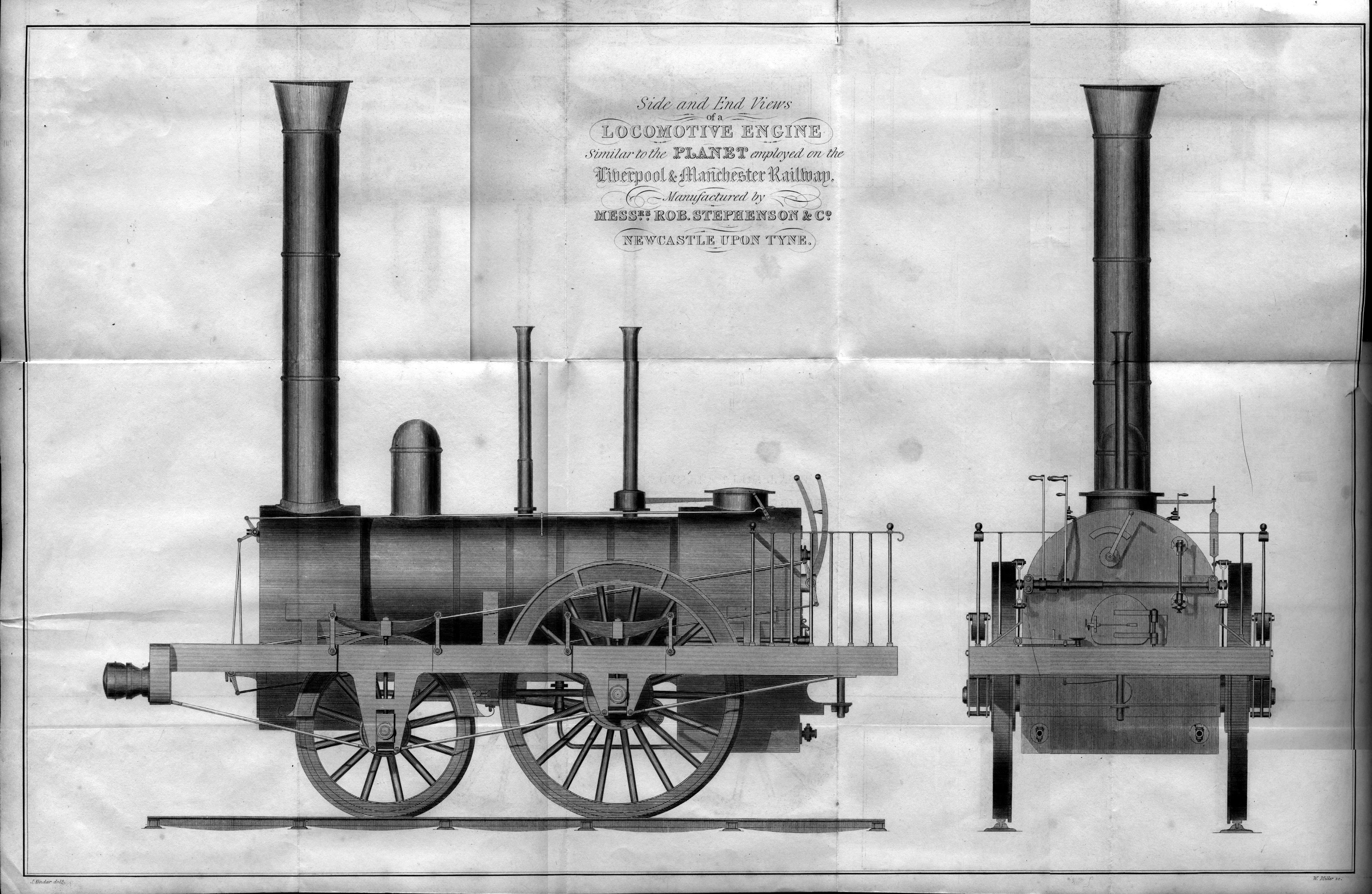 Side and end views of a locomotive engine similar to the Planet employed on the Liverpool and Manchester Railway manufactured by Messrs. Rob. Stephenson & Co., Newcastle upon Tyne engraving by William Miller after J Kindar, from Remarks on the Comparative Merits of Cast Metal and Malleable Iron Railways; and an account of the Stockton and Darlington Railway and the Liverpool and Manchester Railway &c &c. Printed By Charles Henry Cook, (successor to the late Edw. Walker Pilgrim-Street Newcastle, 1832